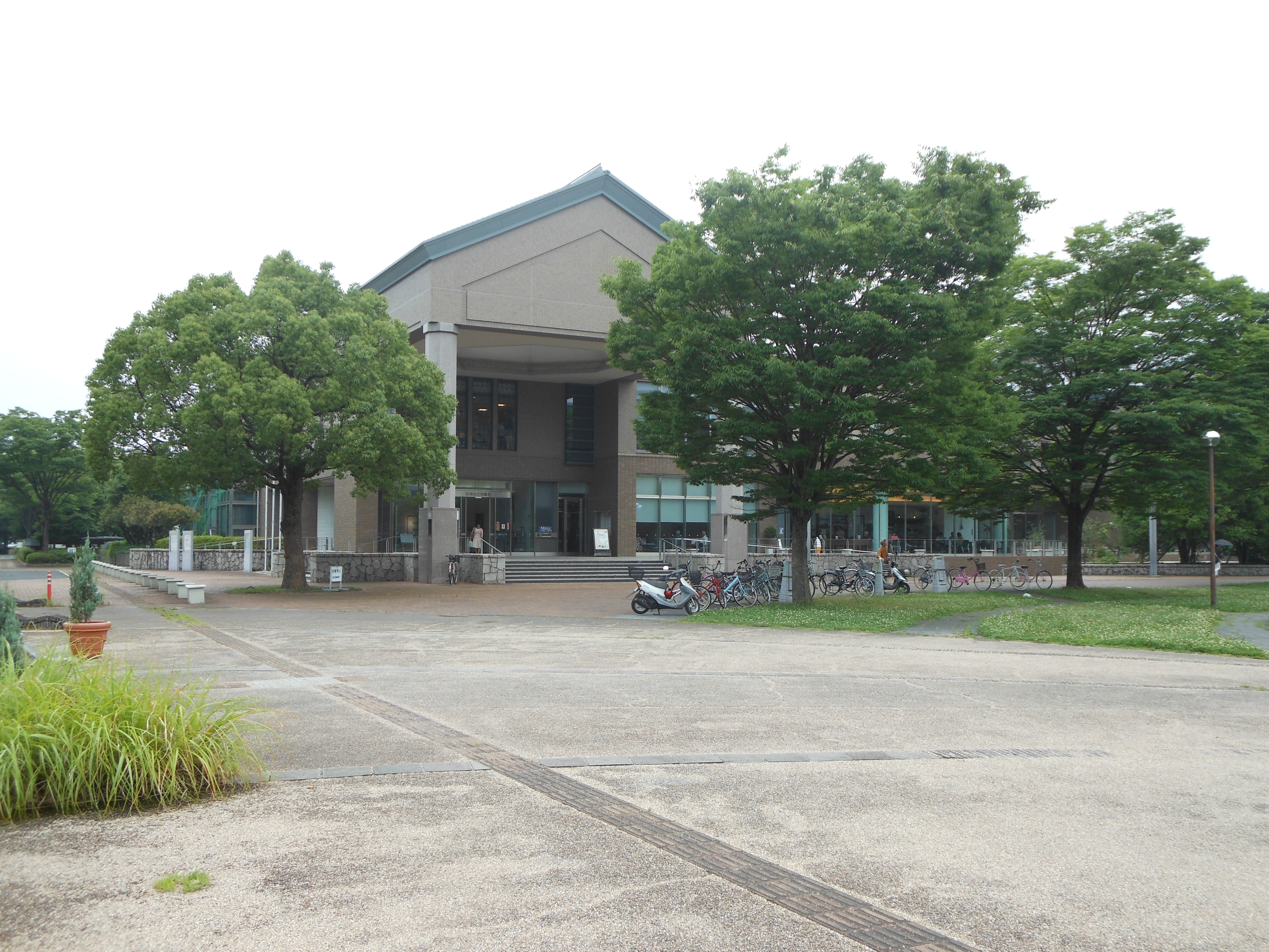 Saga City Library